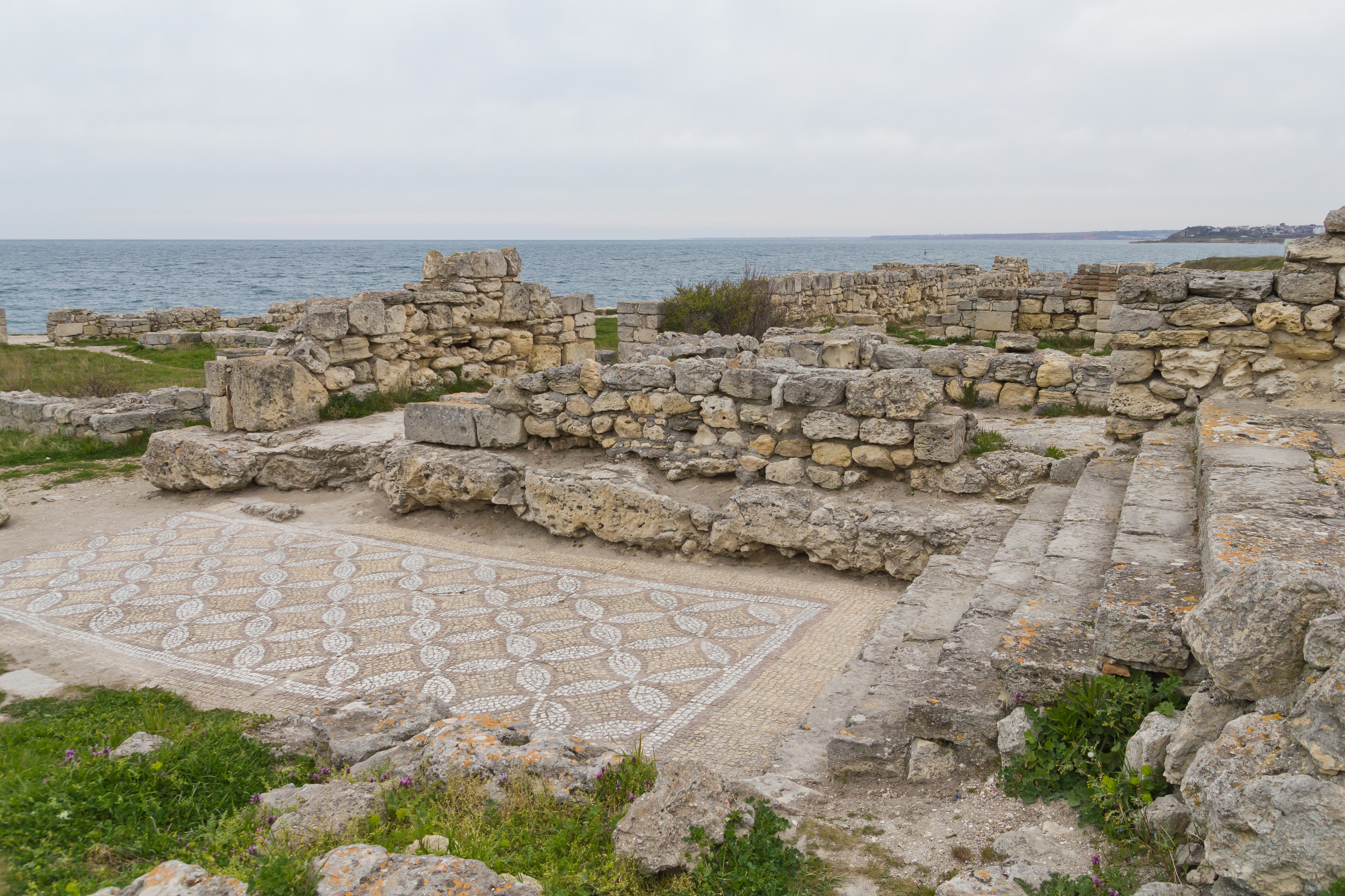 The archaeological site at Chersonesus in the Federal City of Sevastopol. Crimean peninsula.